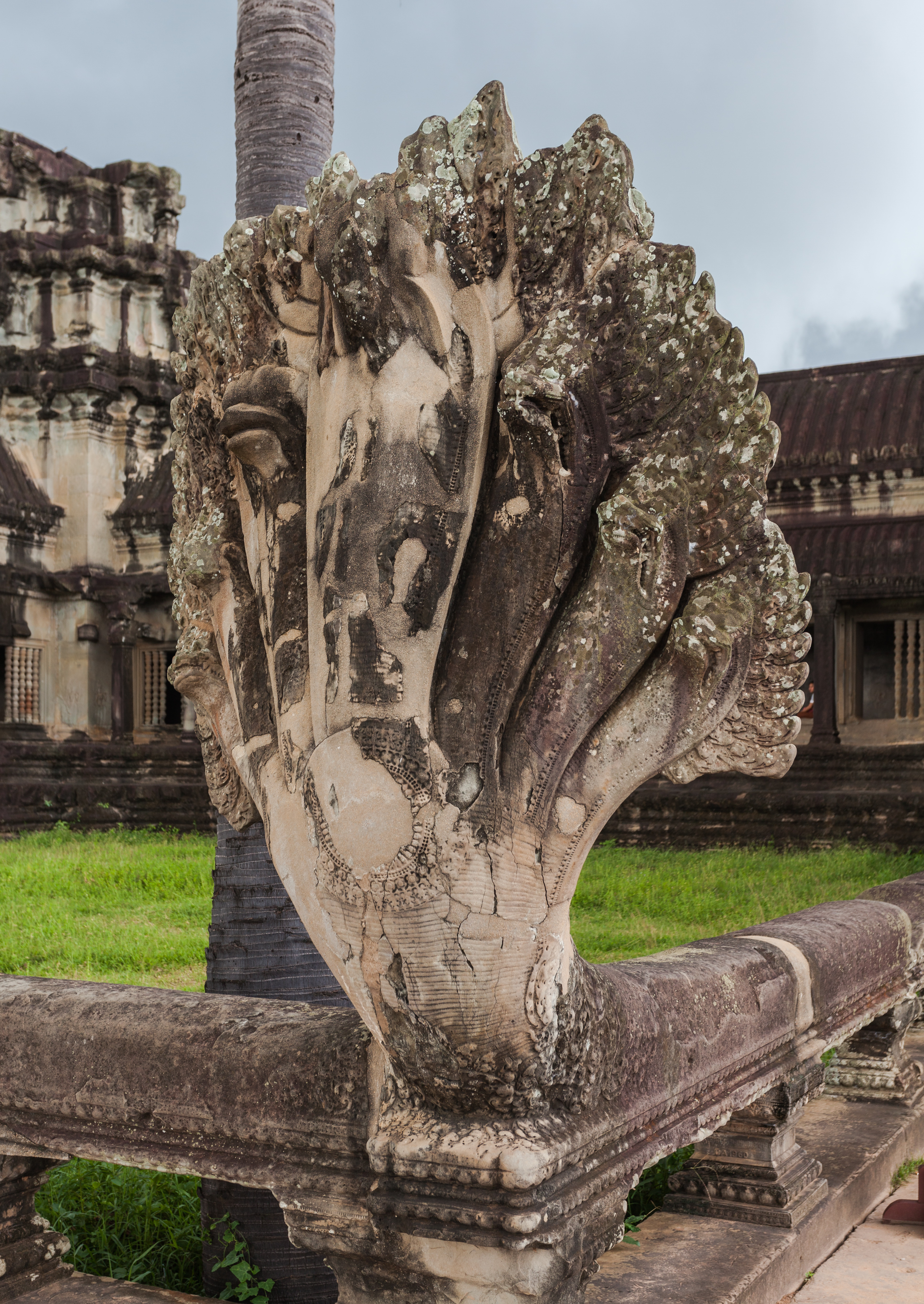 Nāga in Angkor Wat, Cambodia